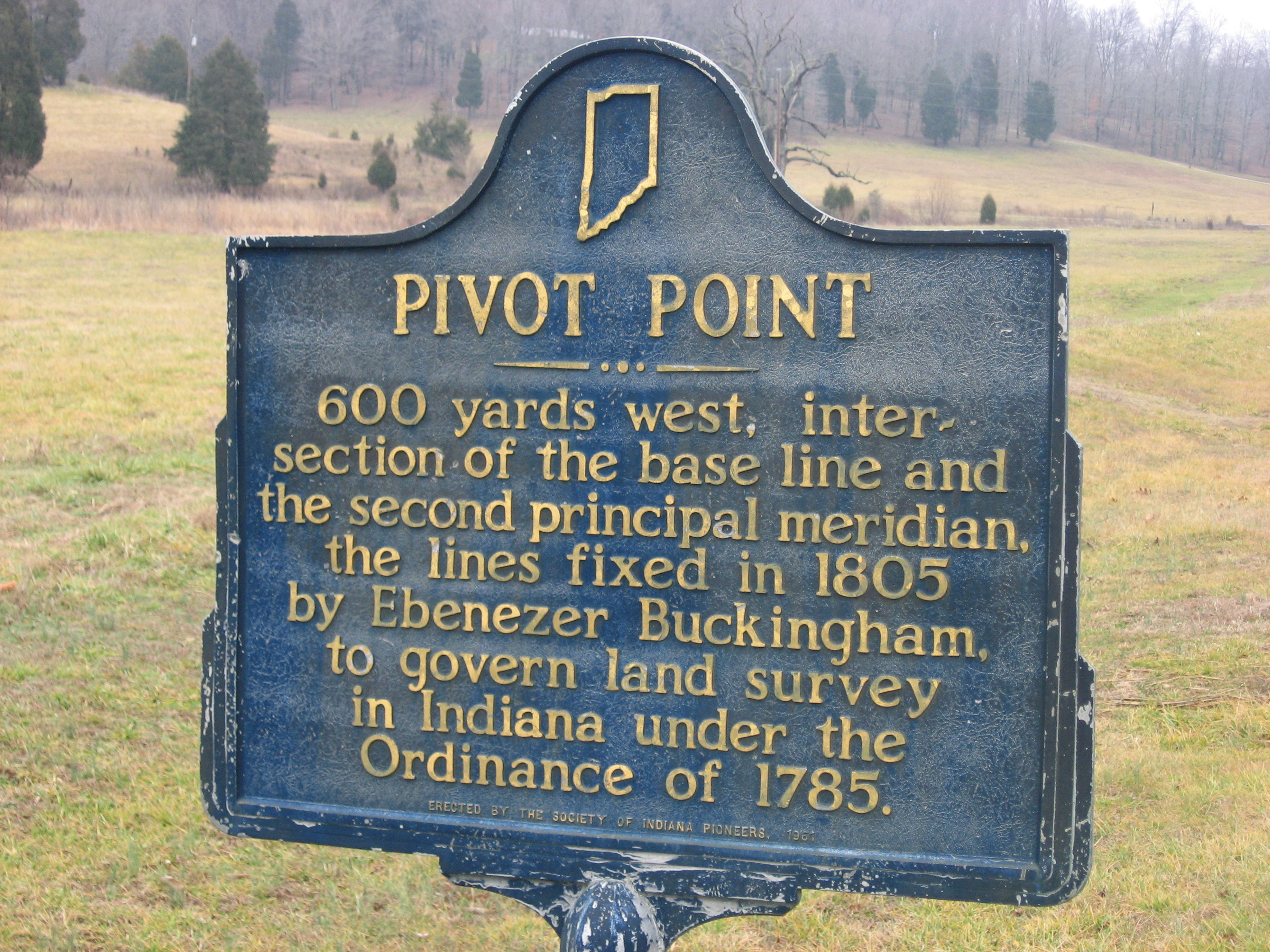 A historical marker at Pine Valley in Southeast Township, Orange County, Indiana, United States. Placed in 1961, it is located on the eastern side of State Road 37 at its junction with Pivot Point Road, about 6.5 miles south of Paoli.